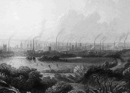 Cottonopolis is a name given to the city of Manchester, in England. It denotes a metropolis of cotton and cotton mills, as inspired by Manchester's status as the international centre of the cotton and textile processing industries during this time. Engraving by Edward Goodall (1795-1870), original title Manchester, from Kersal Moor after a painting of W. Wylde.